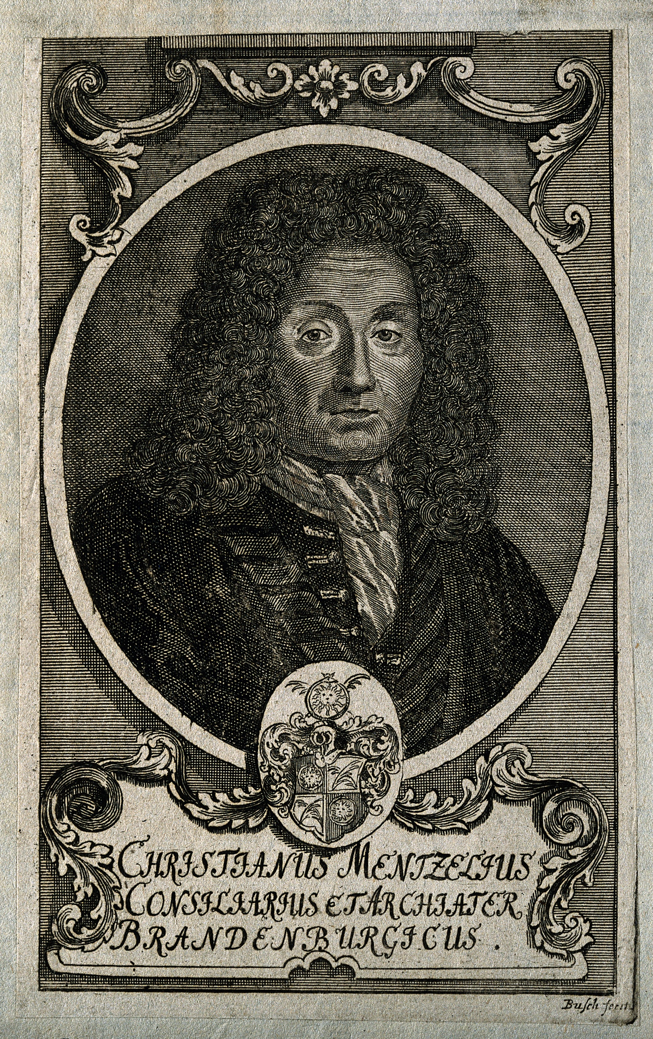 Christian Mentzel. Line engraving by Busch. Iconographic Collections Keywords: portrait prints; engravings; Christian Mentzel